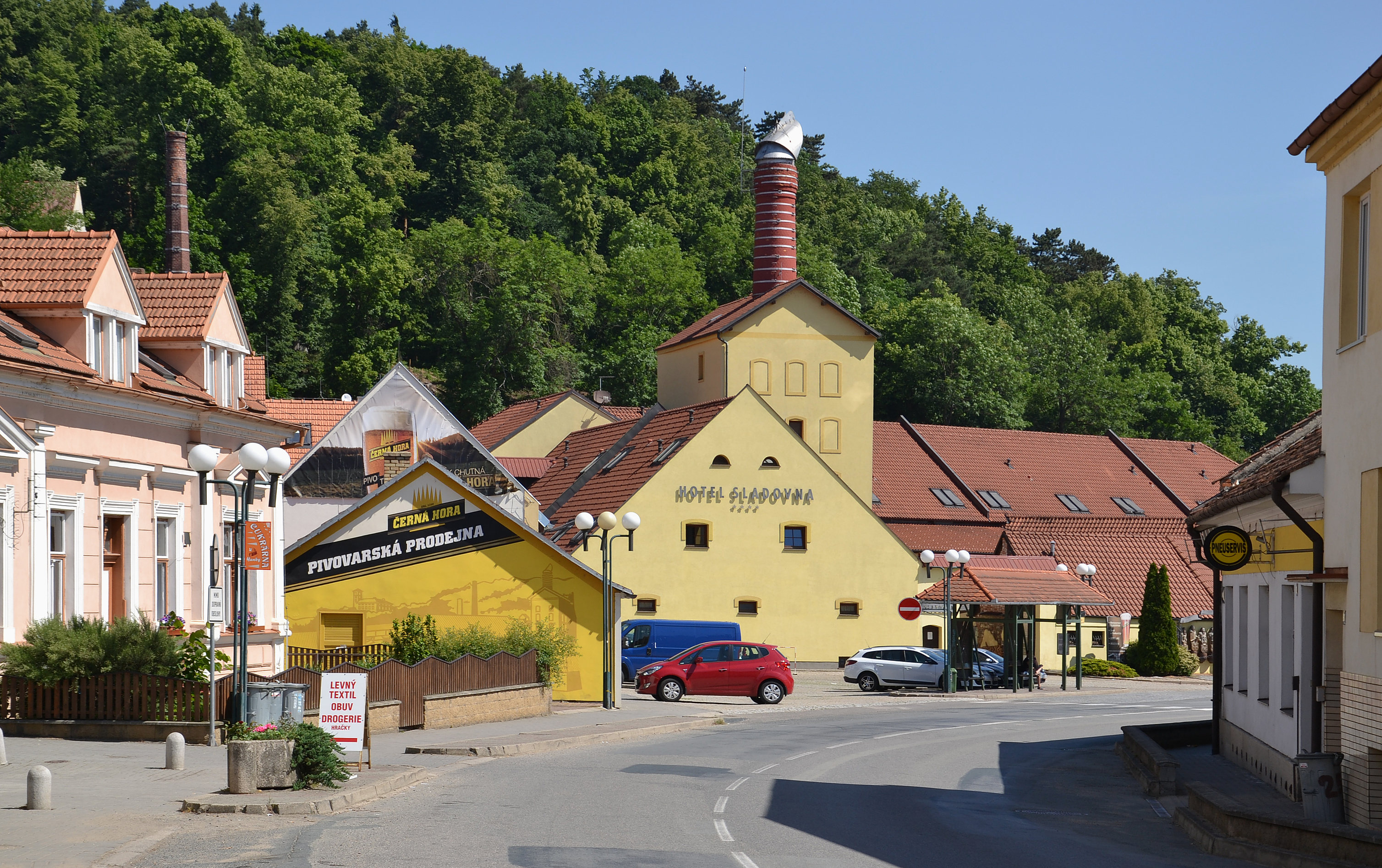 Brewery Černá Hora, Moravia